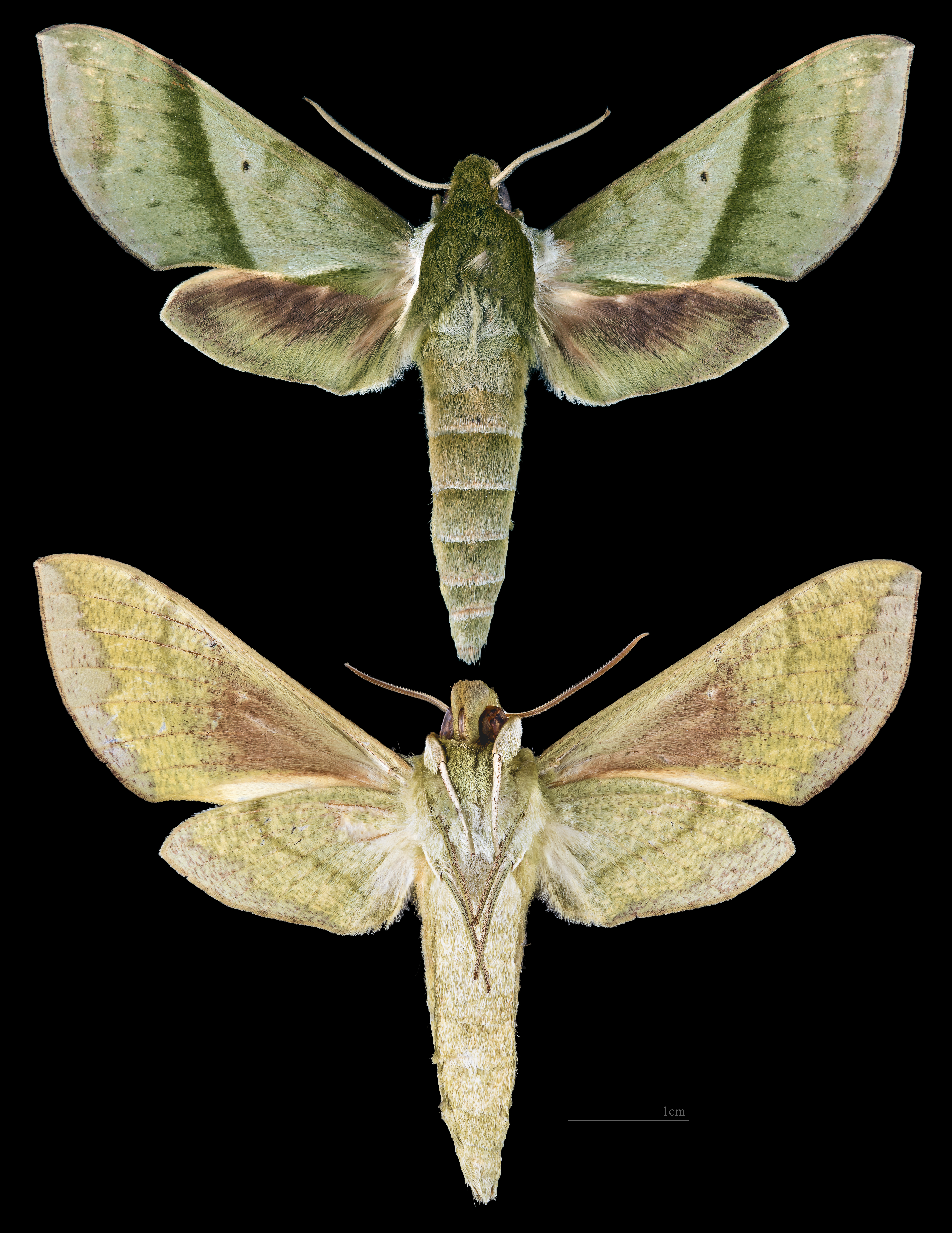 Xylophanes marginalis - Two views of same specimen Collection of the Mathematician Laurent Schwartz